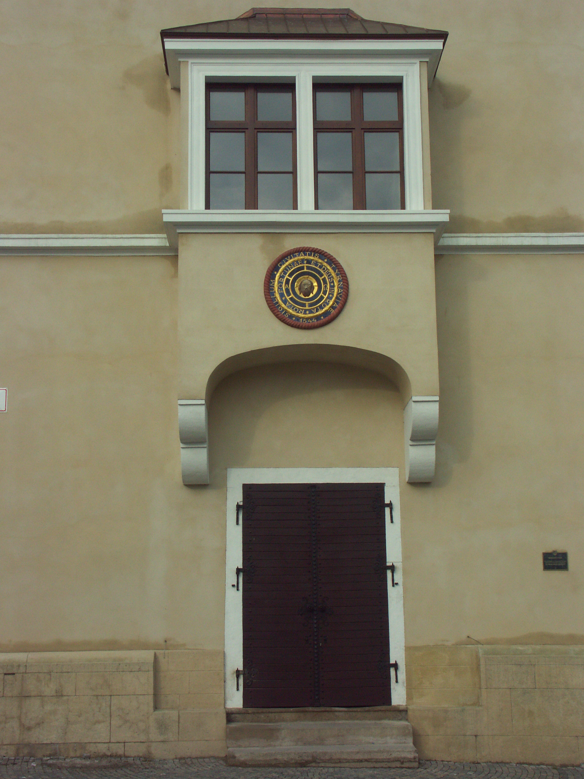 Author: Radovan Bahna, Slovakia Place: Slovakia, Trnava, Town tower-front door